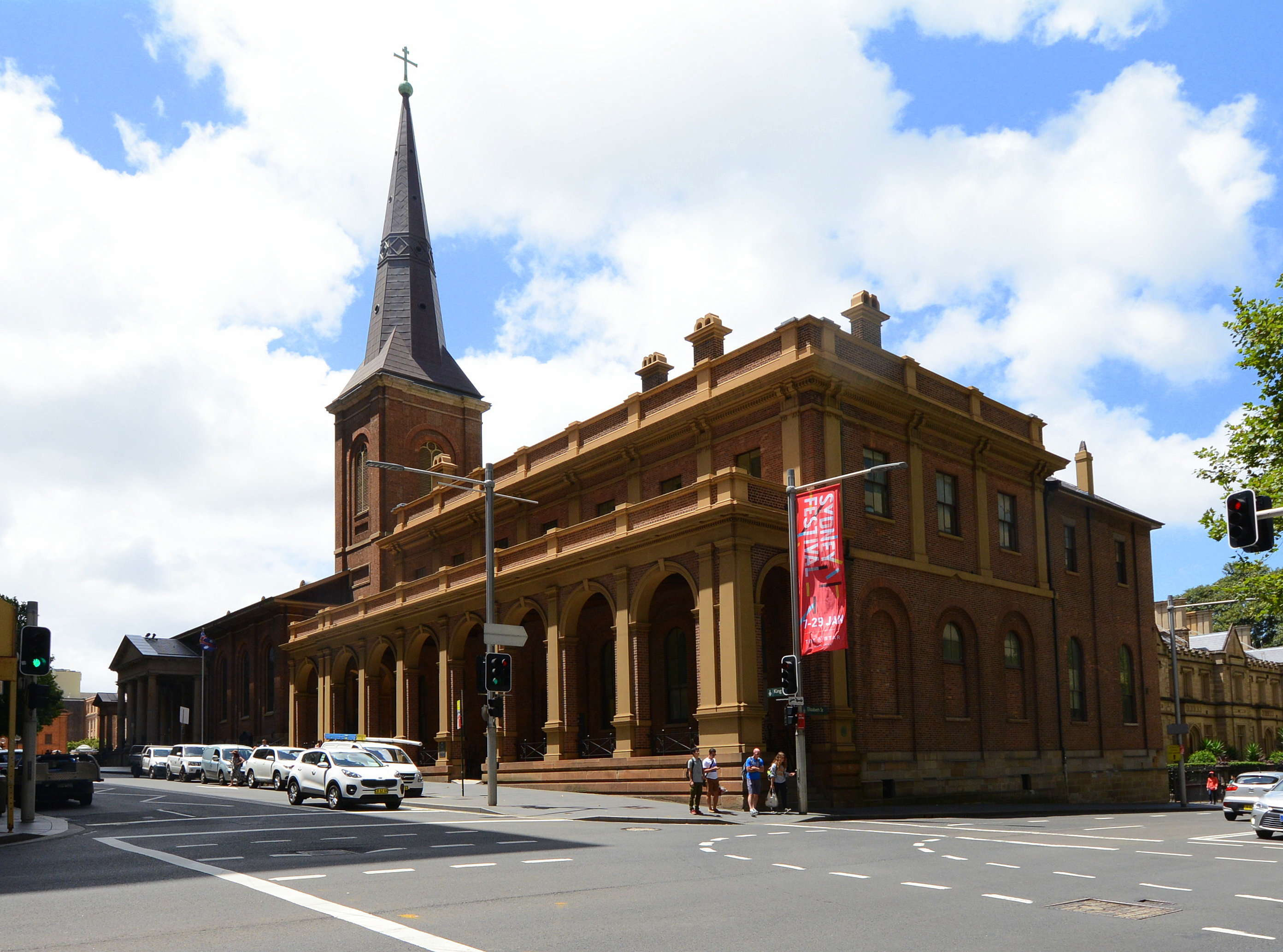 Supreme Court of New South Wales, Sydney (with St James Church on the left)